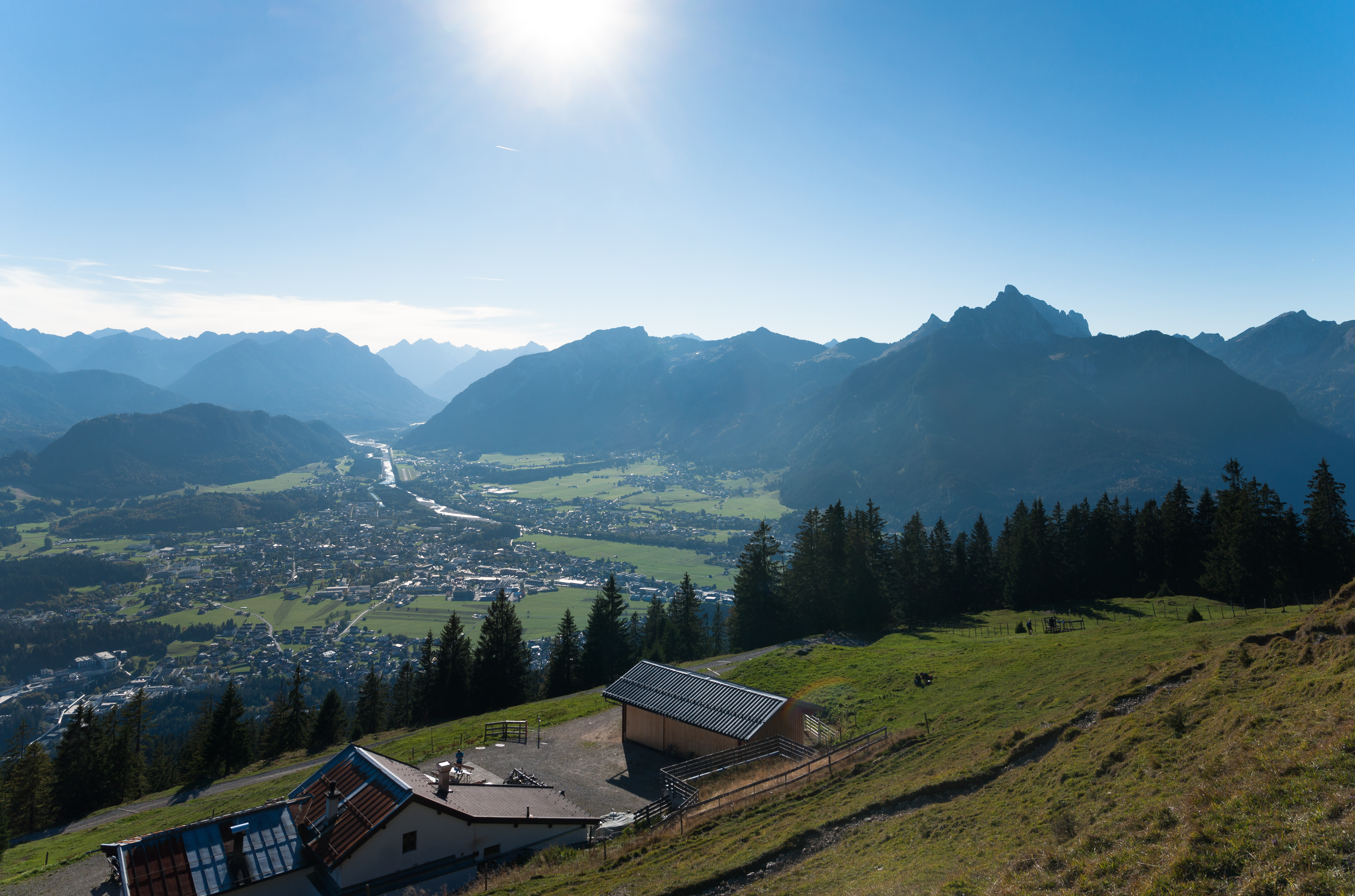 View from Dürrenberger Alm on to Reutte in the Austrian Ausserfern, Tyrol.